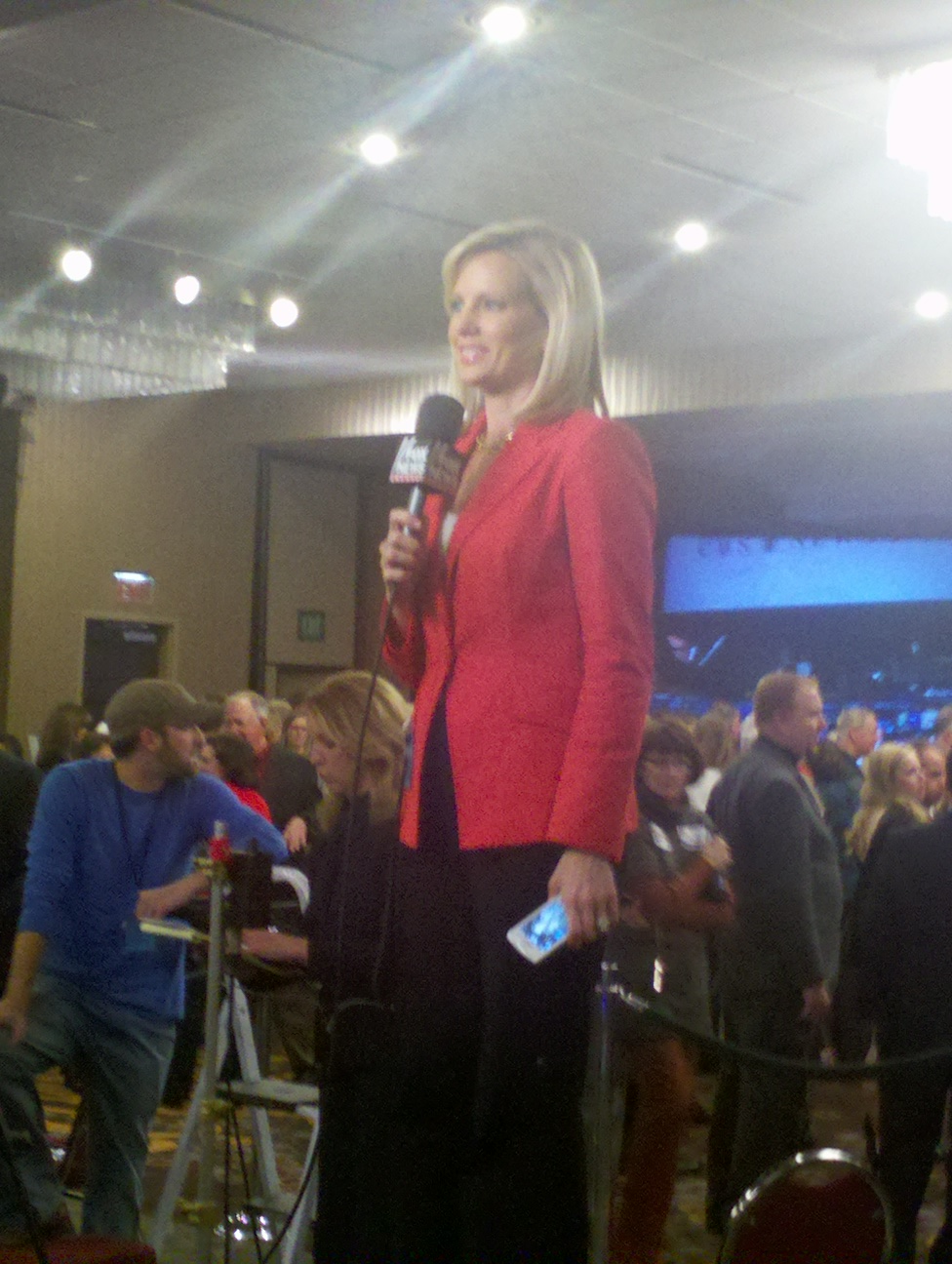 Shannon Bream reports from Des Moines at the Embassy Suites base for the Iowa Republican election results on November 6, 2012 describing the Tom Latham victory over Leonard Boswell for Iowa’s 3rd Congressional District.